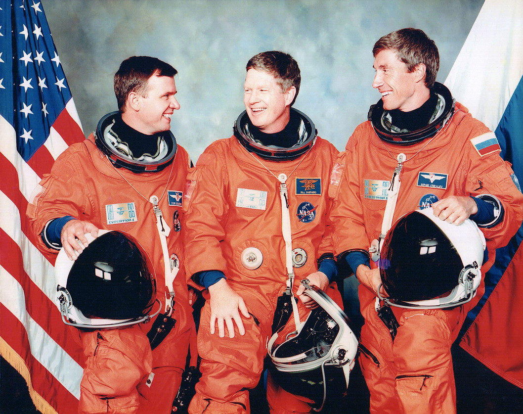 Crew of ISS Expedition 1 launched with Soyuz TM-31